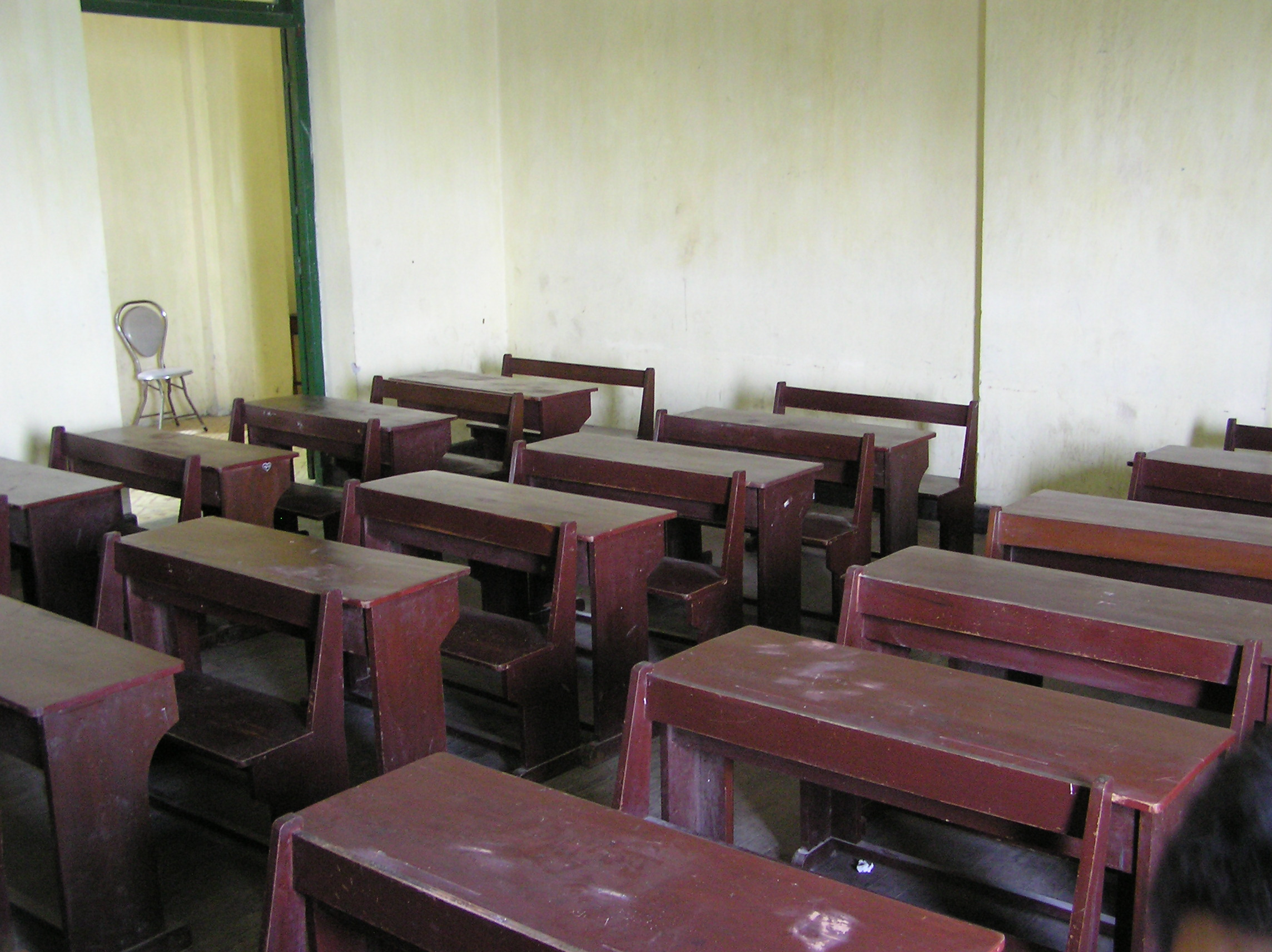 An old classroom in Chu Văn An High School, 2007.